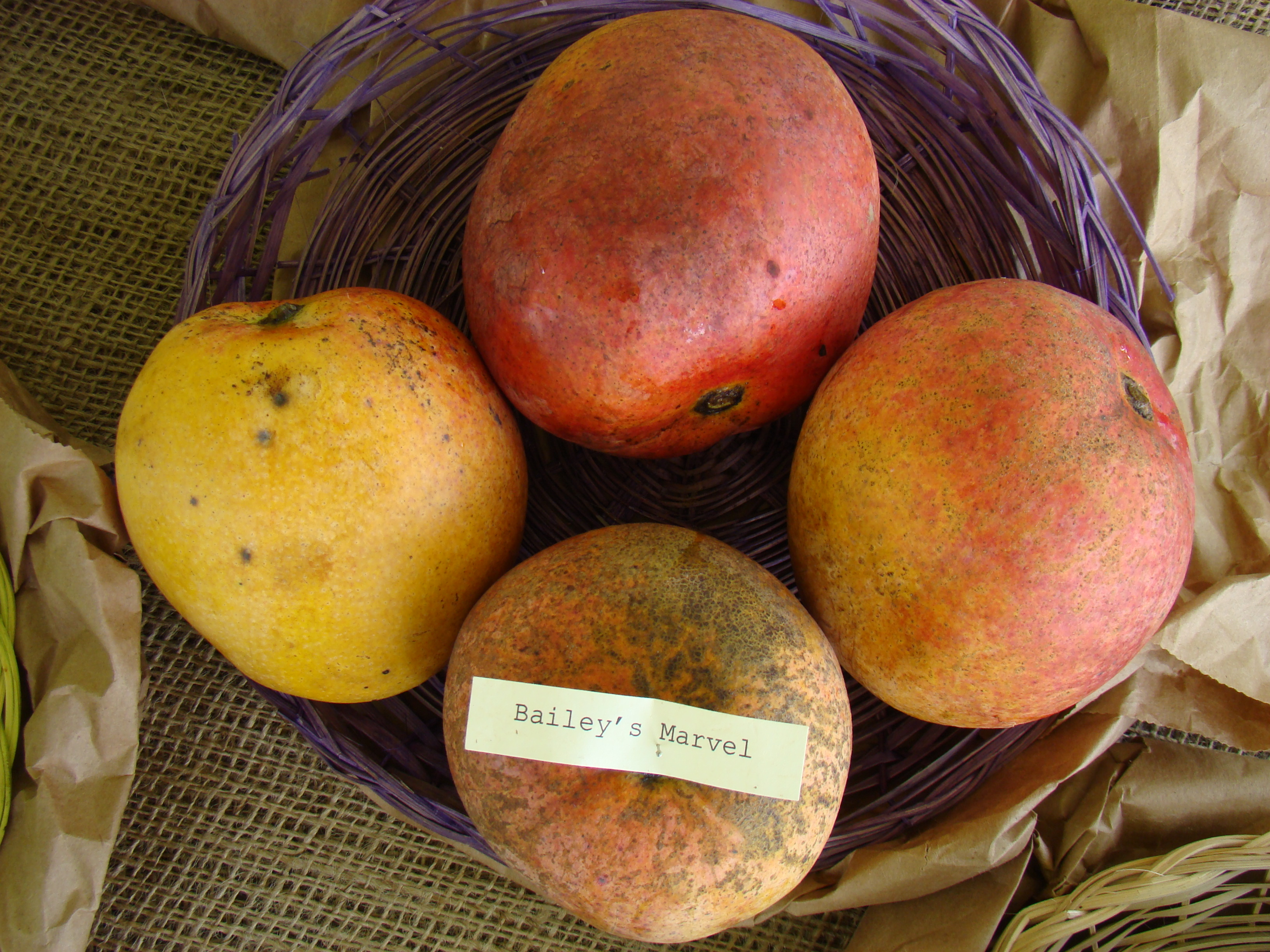 This is a photo of the display of Bailey's Marvel mango at the Redland Summer Fruit Festival, Fruit & Spice Park, Homestead, Florida.